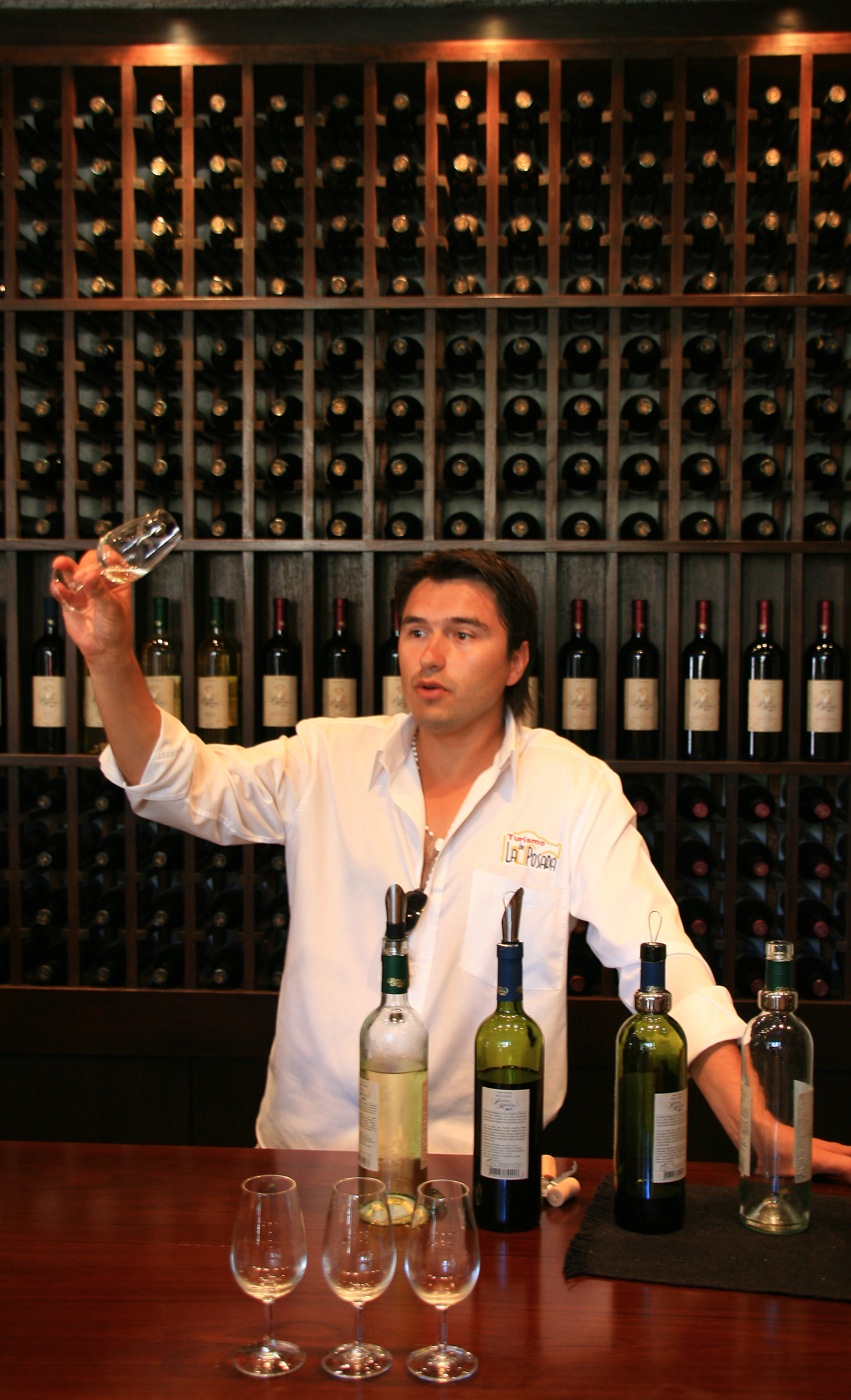 Preparing a flight of wines at a tasting bar